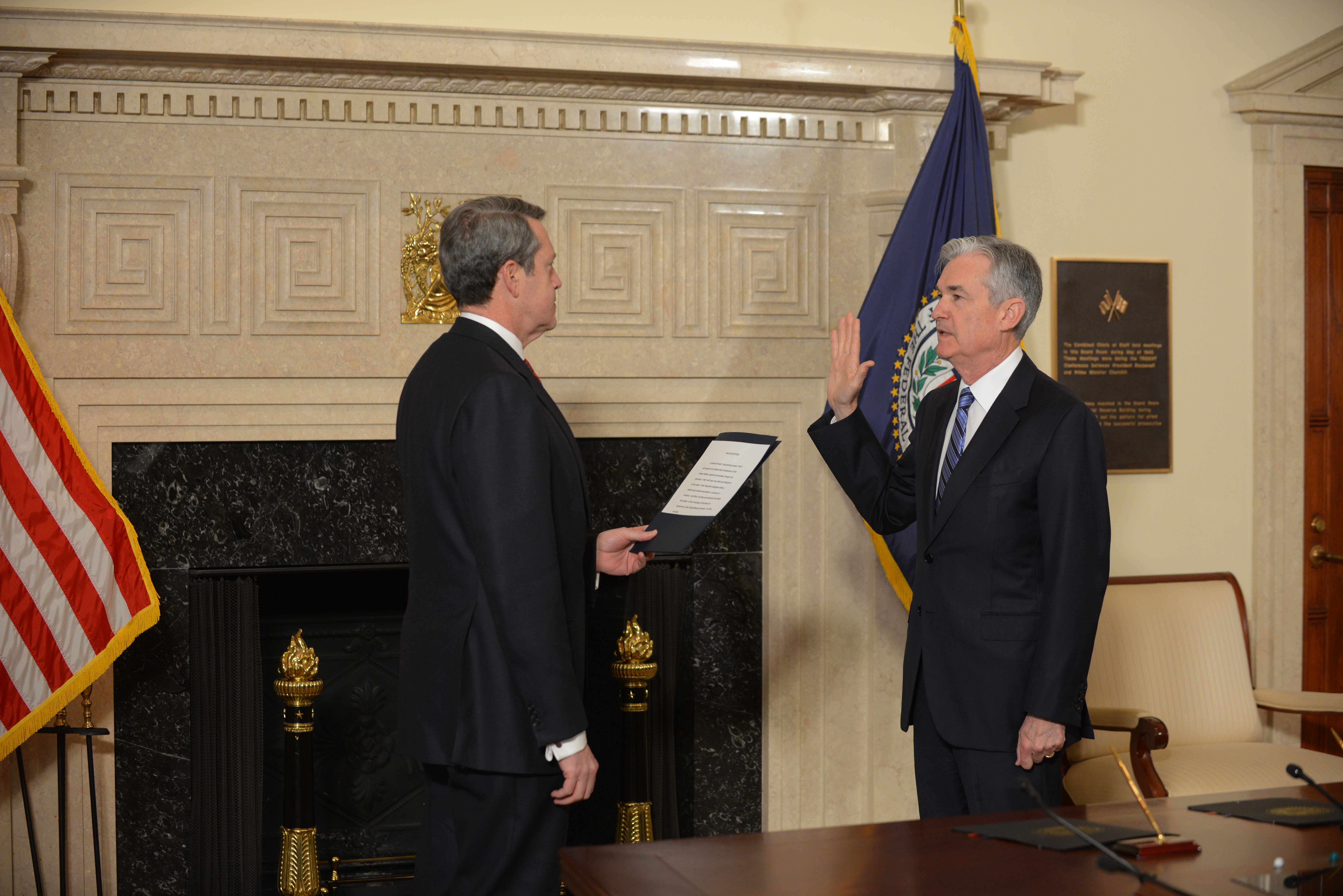 Vice Chairman for Supervision Quarles swears in Jerome H. Powell as Chairman of the Board of Governors of the Federal Reserve System